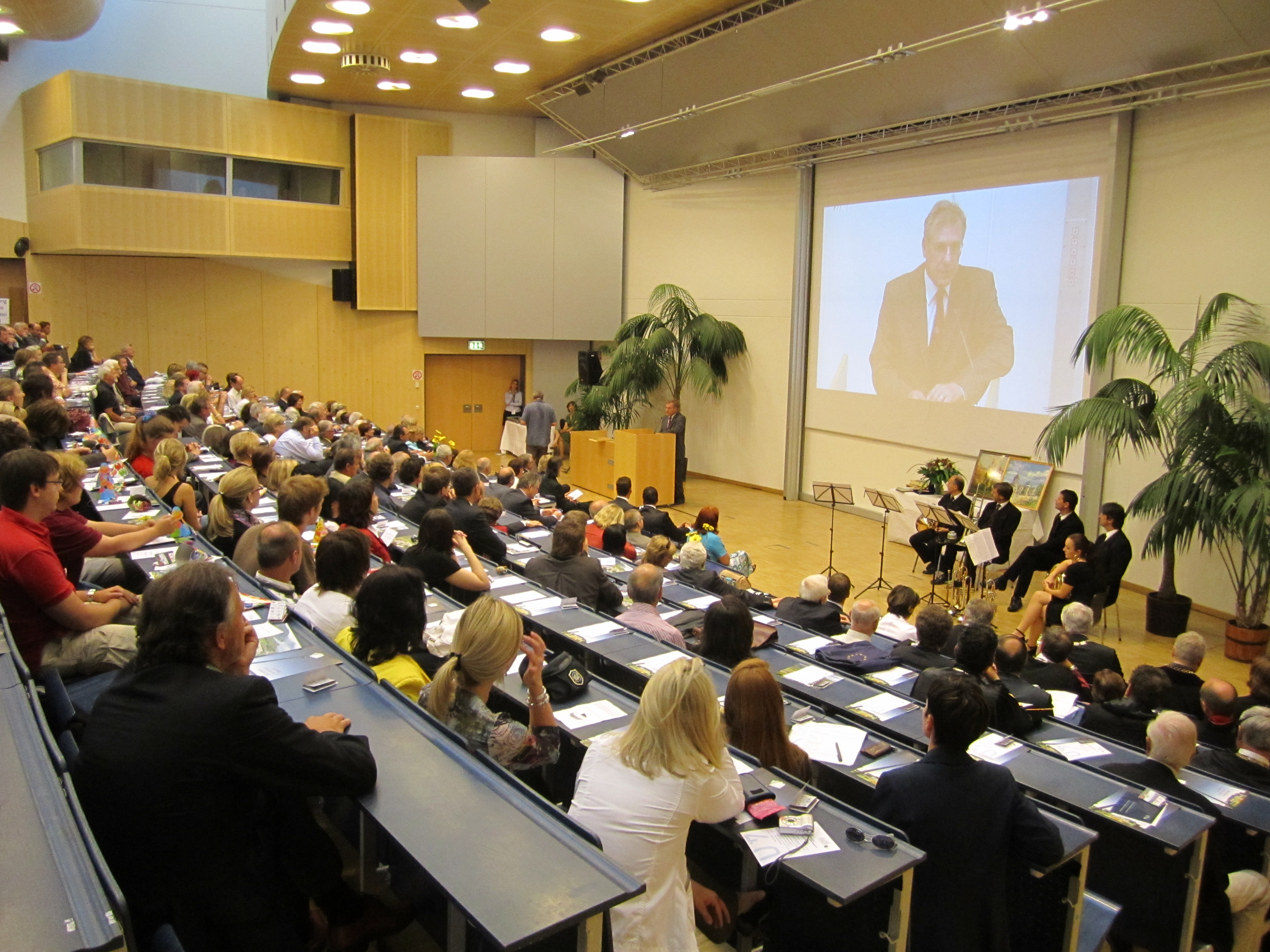 40 Jahre Universität Klagenfurt.jpg